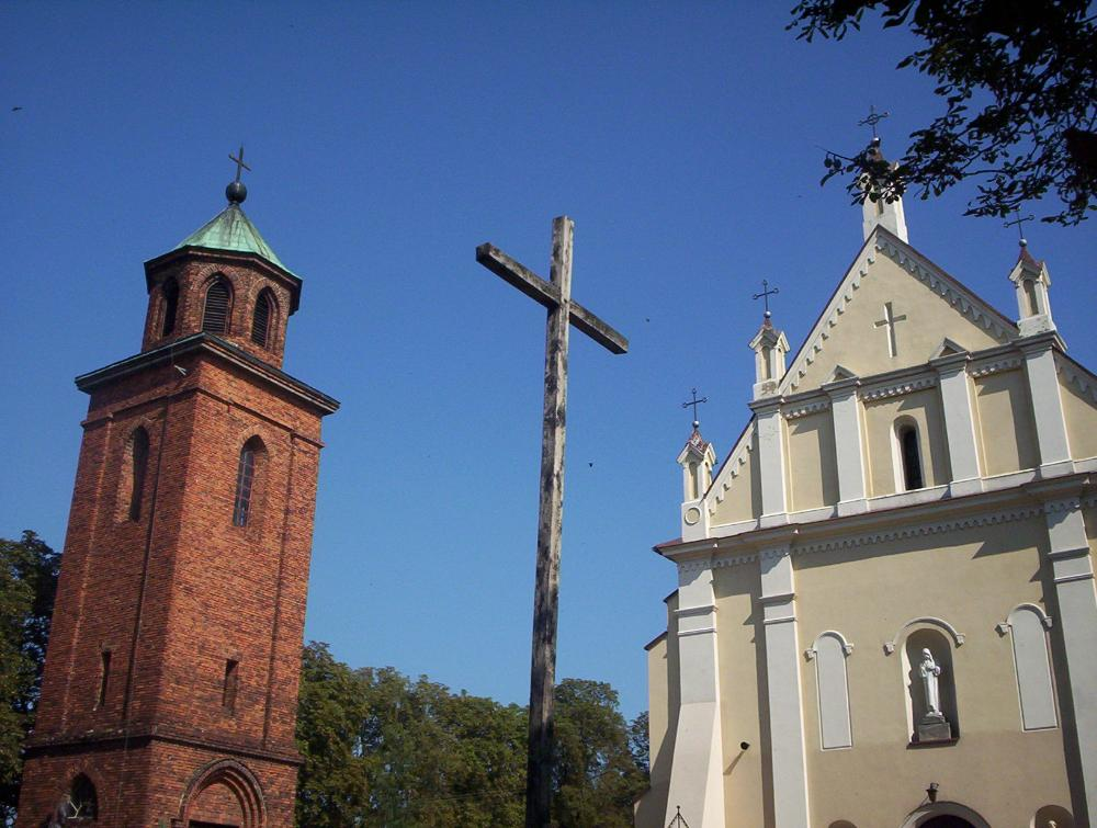 Saint Adalbert's of Prague church and belfry in Biała Rawska, Poland.